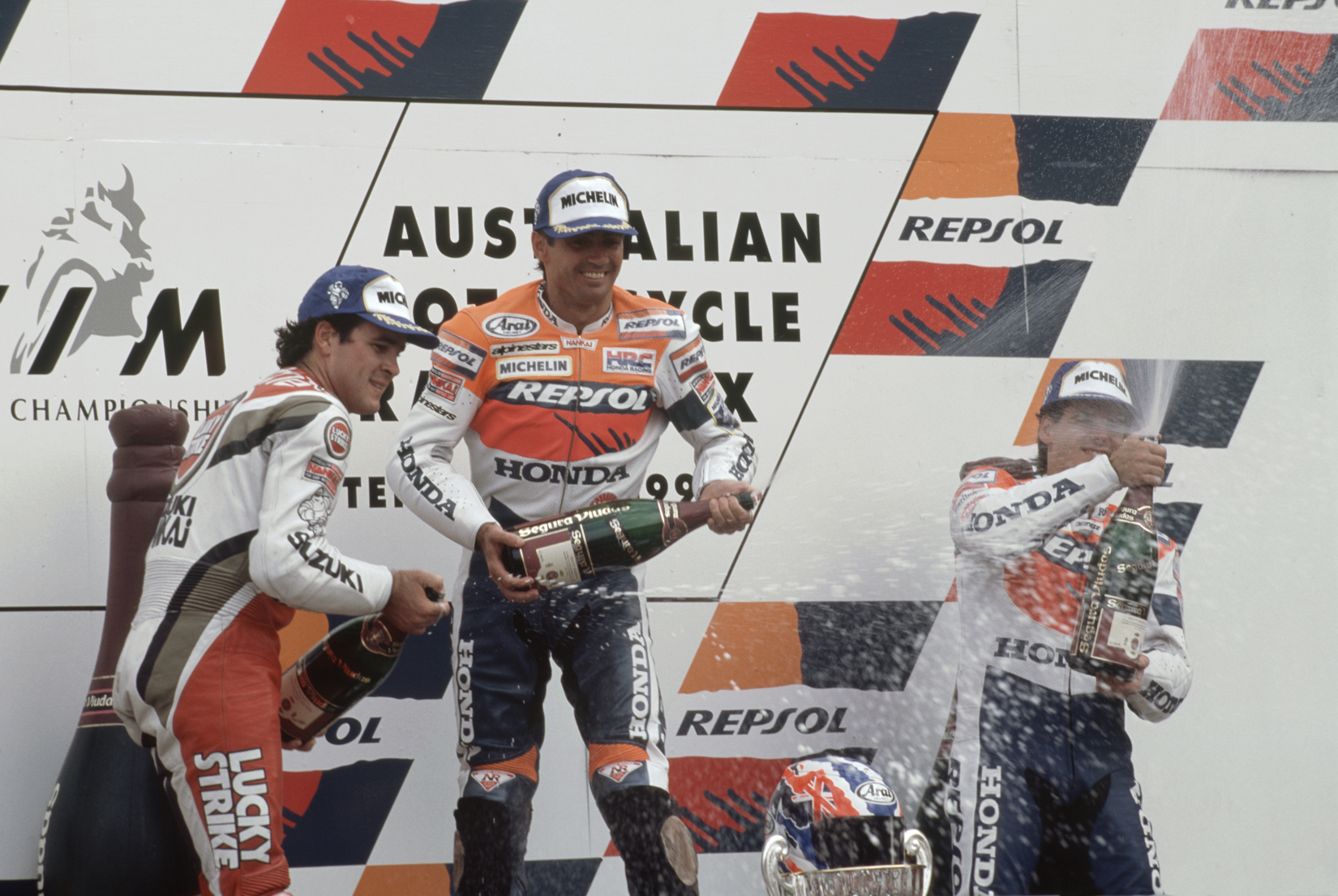 Daryl Beattie, Mick Doohan and Àlex Crivillé, spraying the champagne and celebrating on the podium after finishing in second, first and third place at the 1995 Australian Grand Prix.